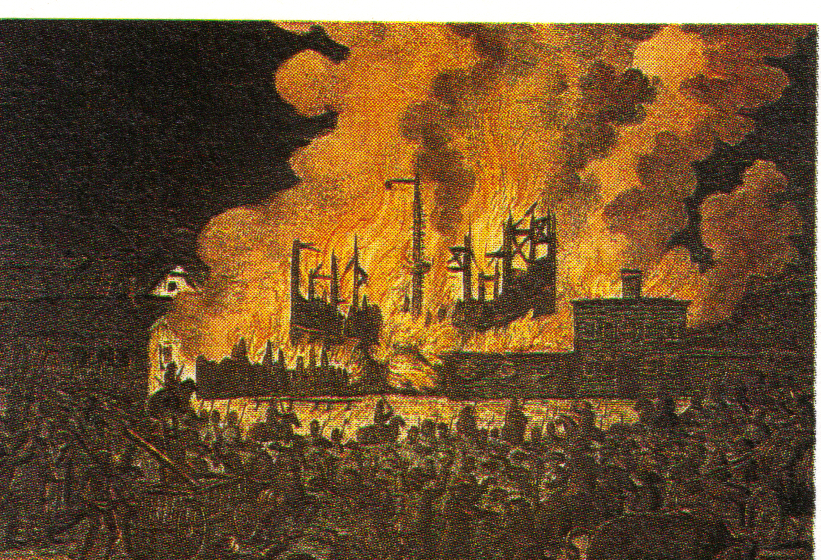 Vienna's Hetztheater burning (Sept 1, 1796)